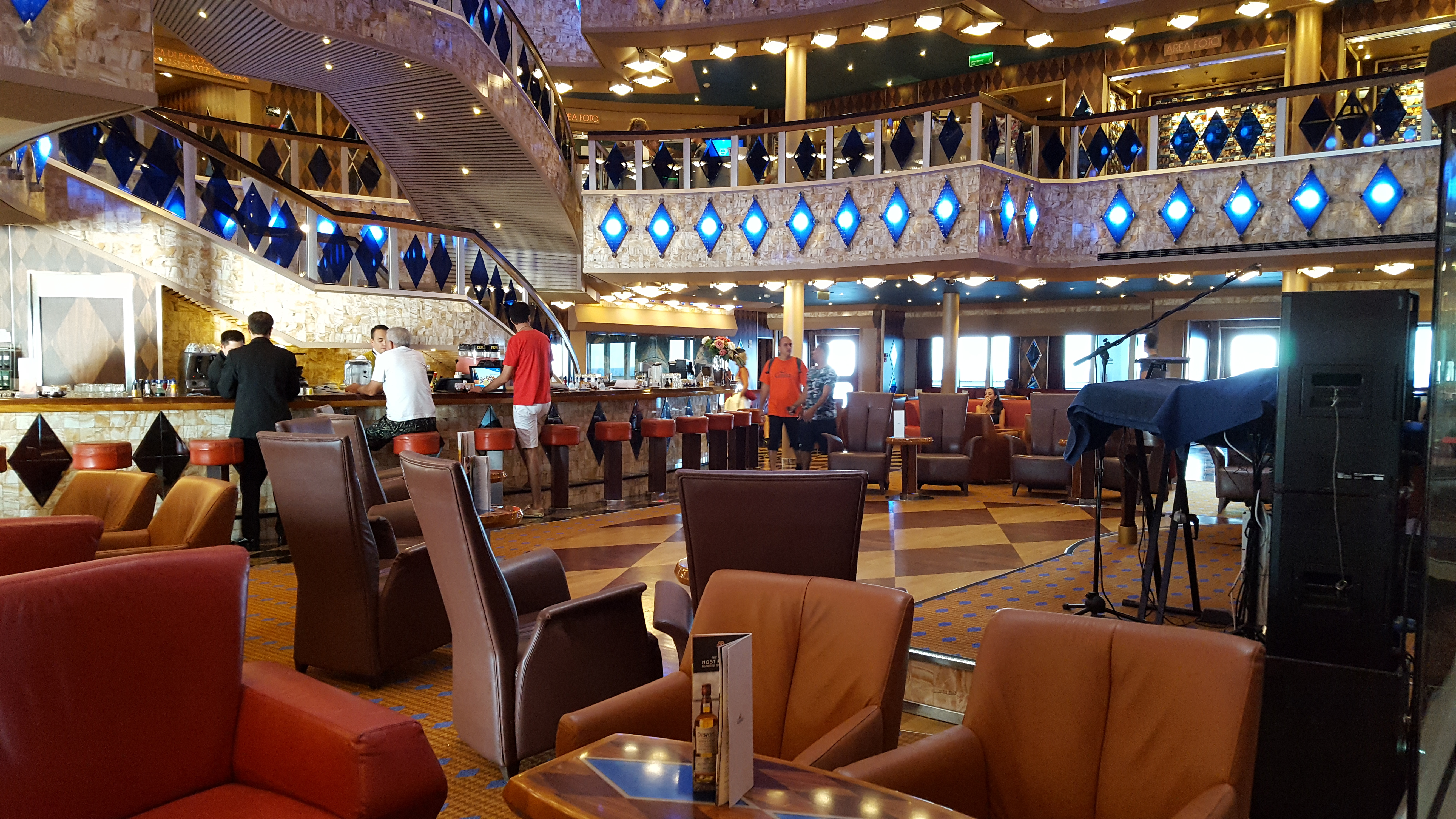 Diamanti Bar, in Atrio dei Diamanti, Costa Favolosa ship, March 2019.